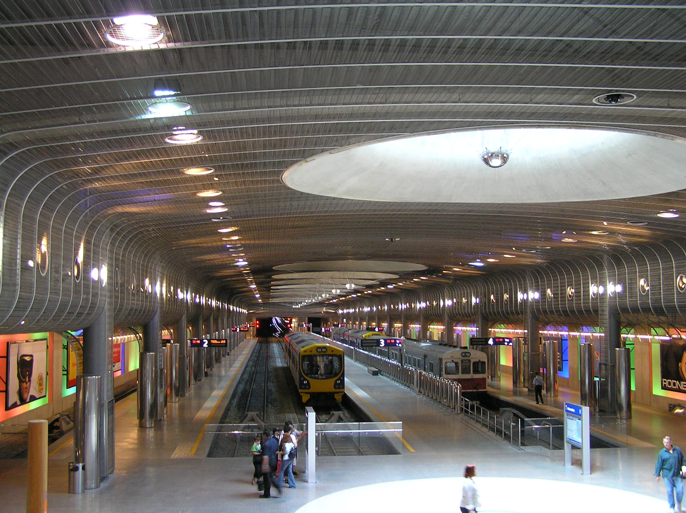 Britomart Transport Centre with platforms, Auckland